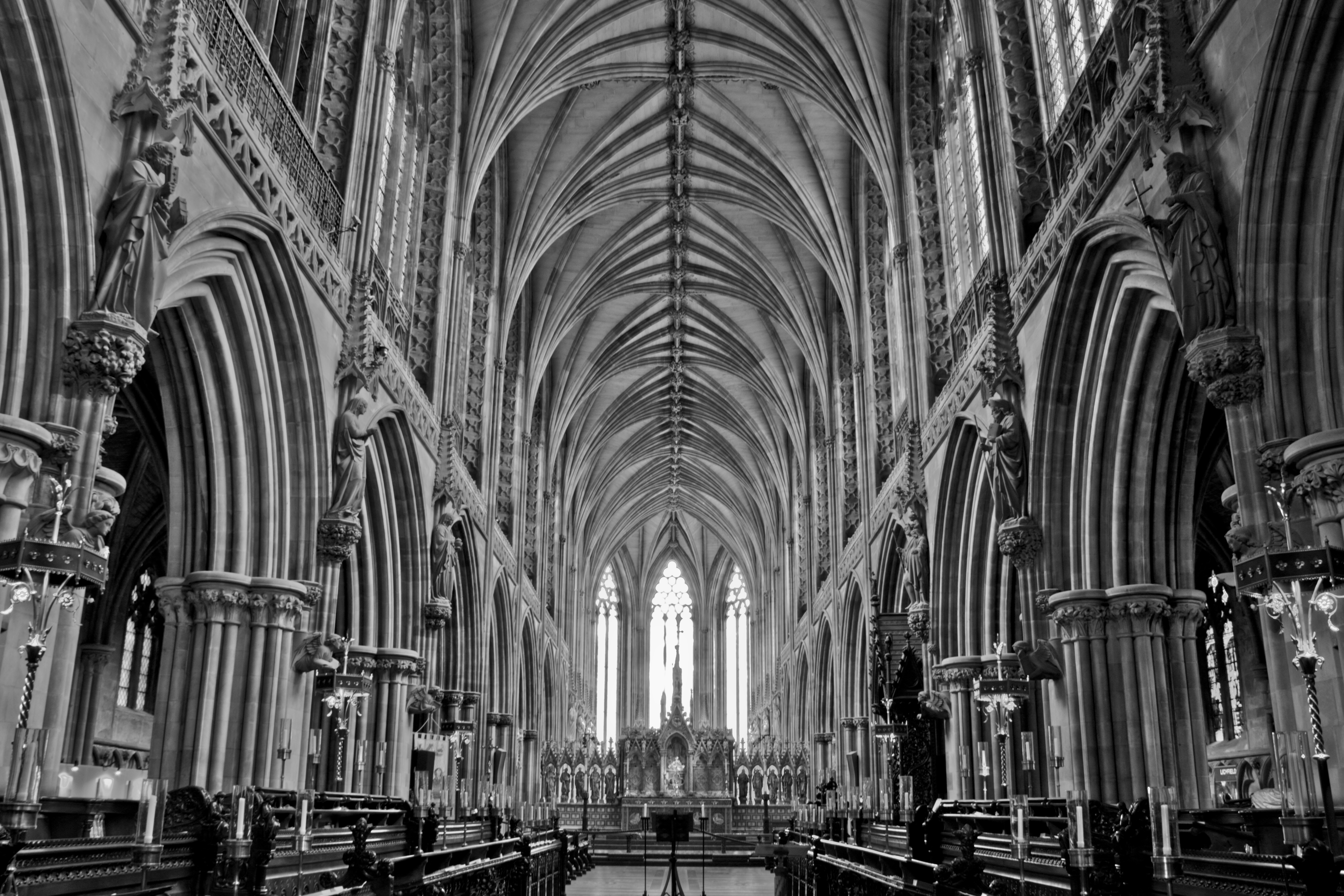 Here is a photograph taken from inside Lichfield Cathedral. Located in Lichfield, Staffordshire, England, UK.